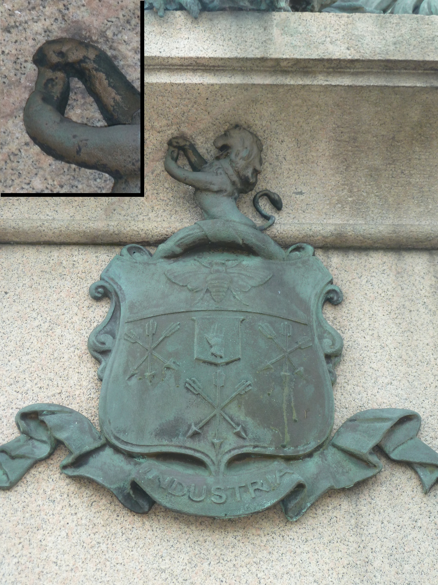 A picture of the peel coat of arms from the Sir Robert Peel Statue in Bury. Includes an inset to show the lion is holding a shuttle, per original design.